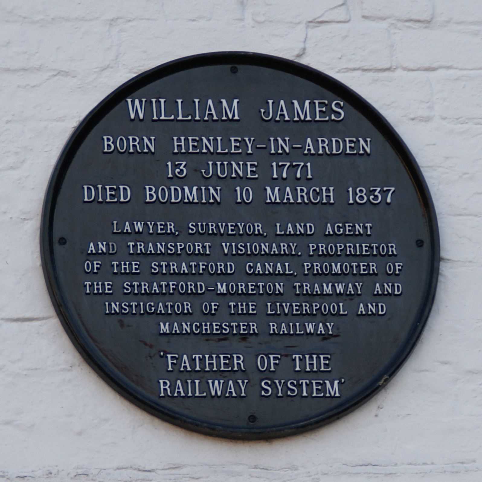 Henley-in-Arden (United Kingdom): The Yew Trees - William James